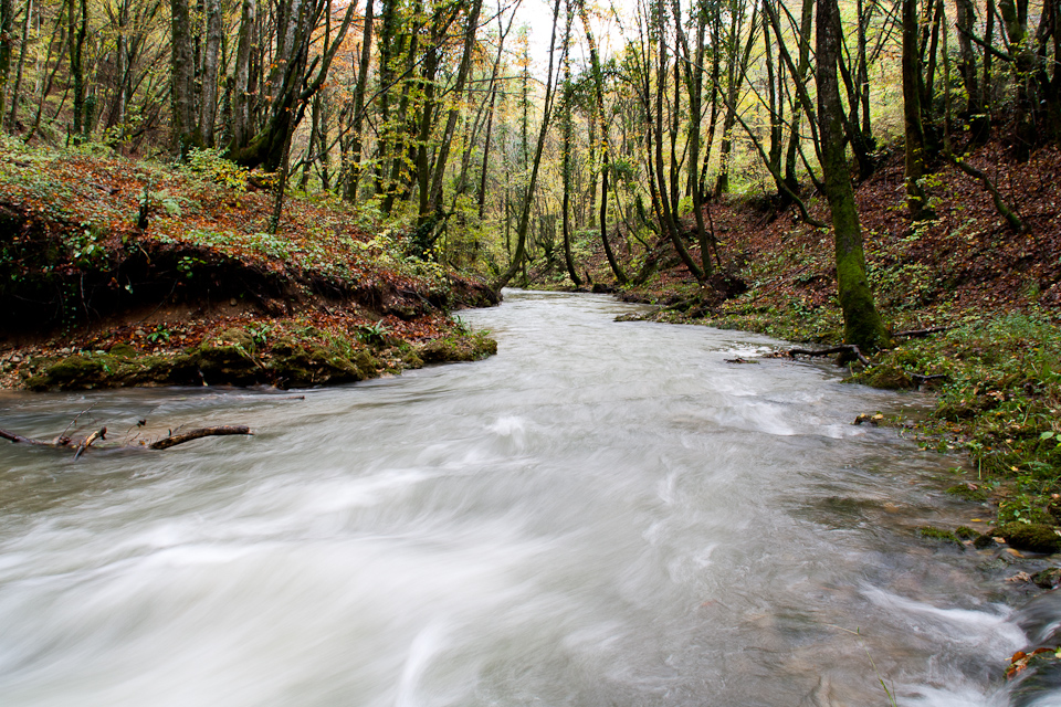 Slapnica stream